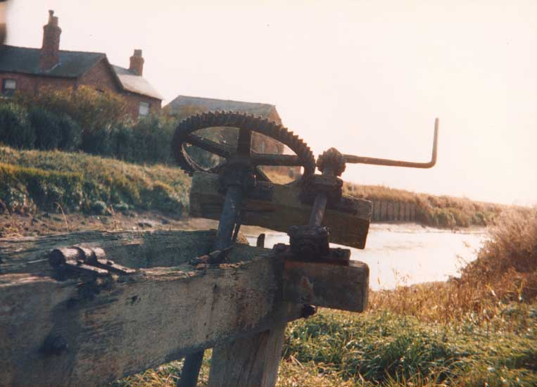 Struncheon Hill lock full of boats (Bob Webster)